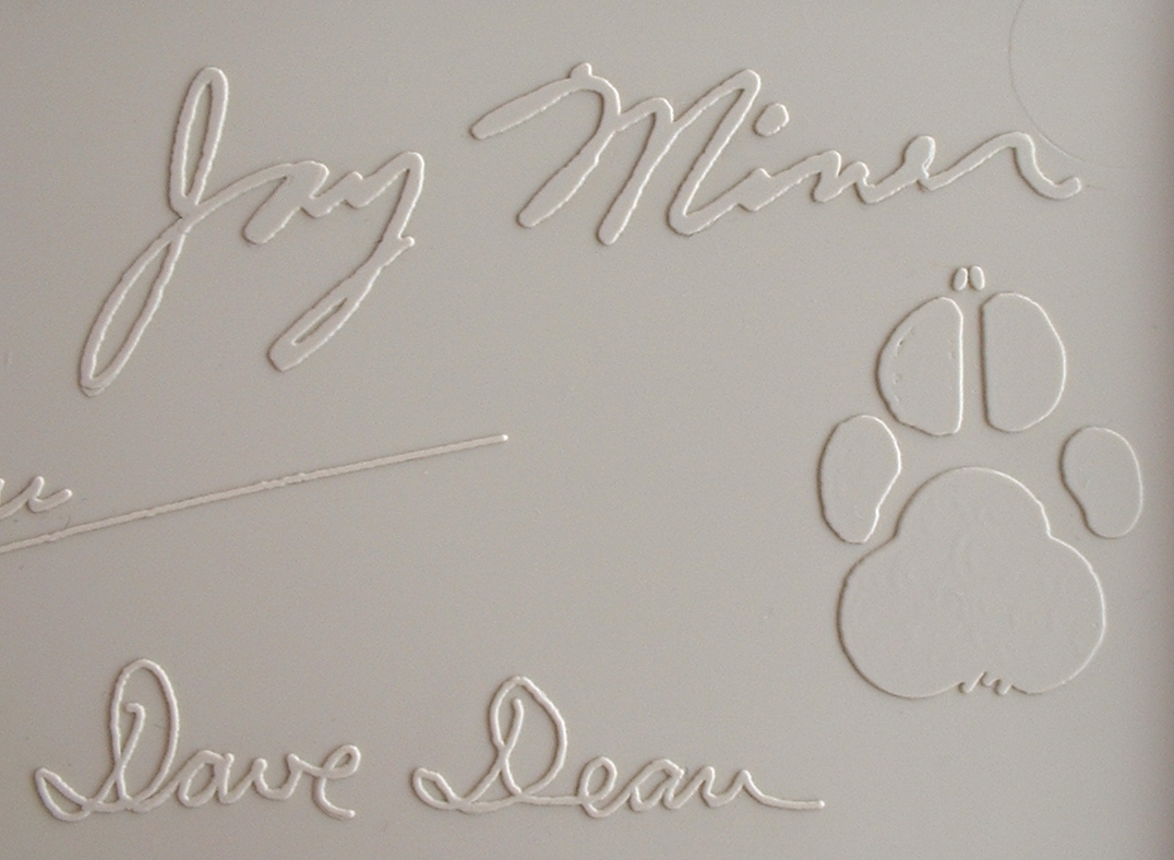 Jay Miner's signature and Mitch's paw print from the top cover of a Commodore Amiga 1000.